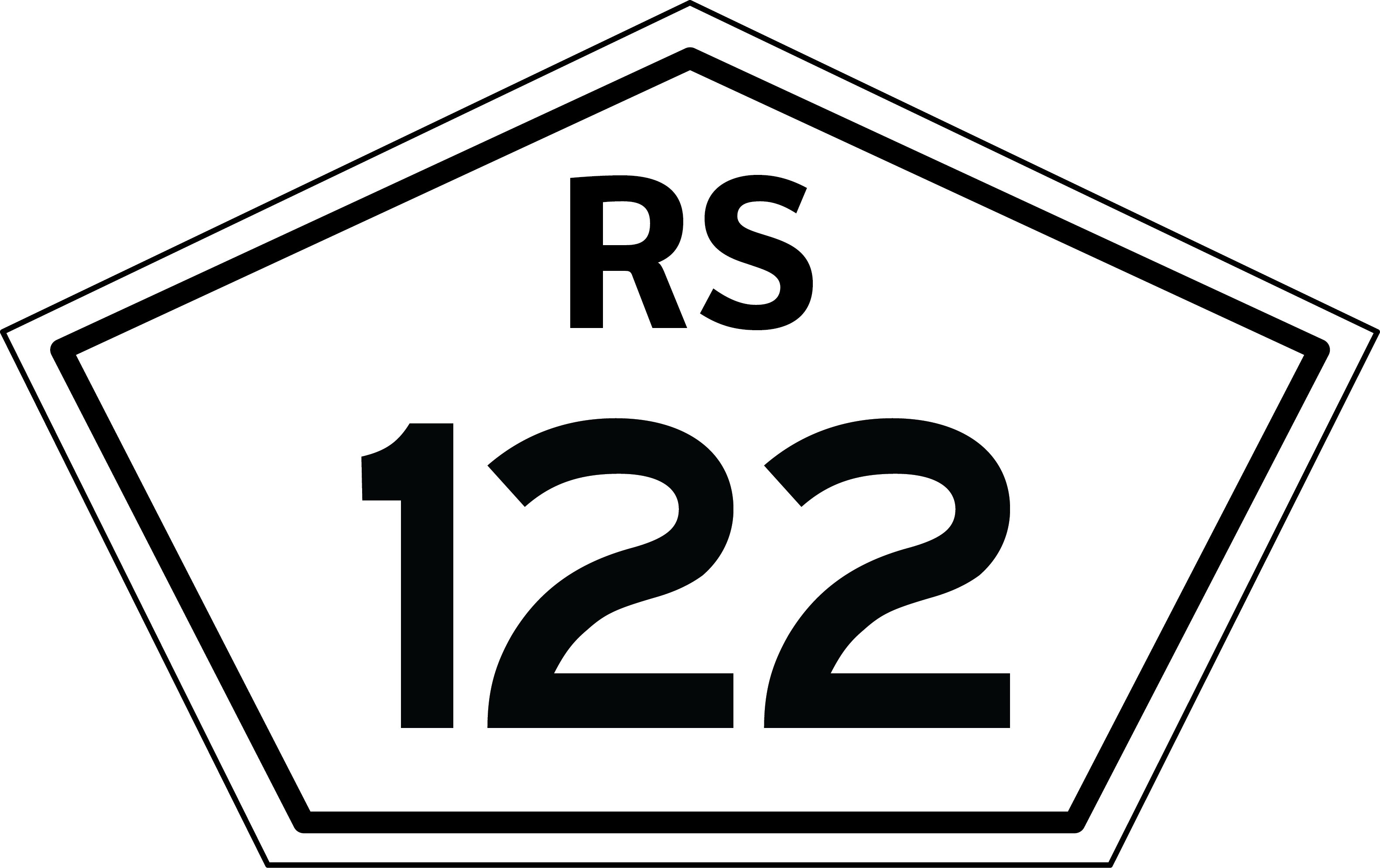 RS-122 State road in Rio Grande do Sul, Brazil. Rodovia estadual no Rio Grande do Sul, Brasil.